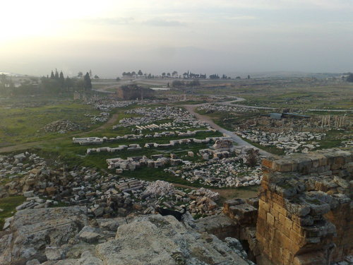 Hierapolis landscape